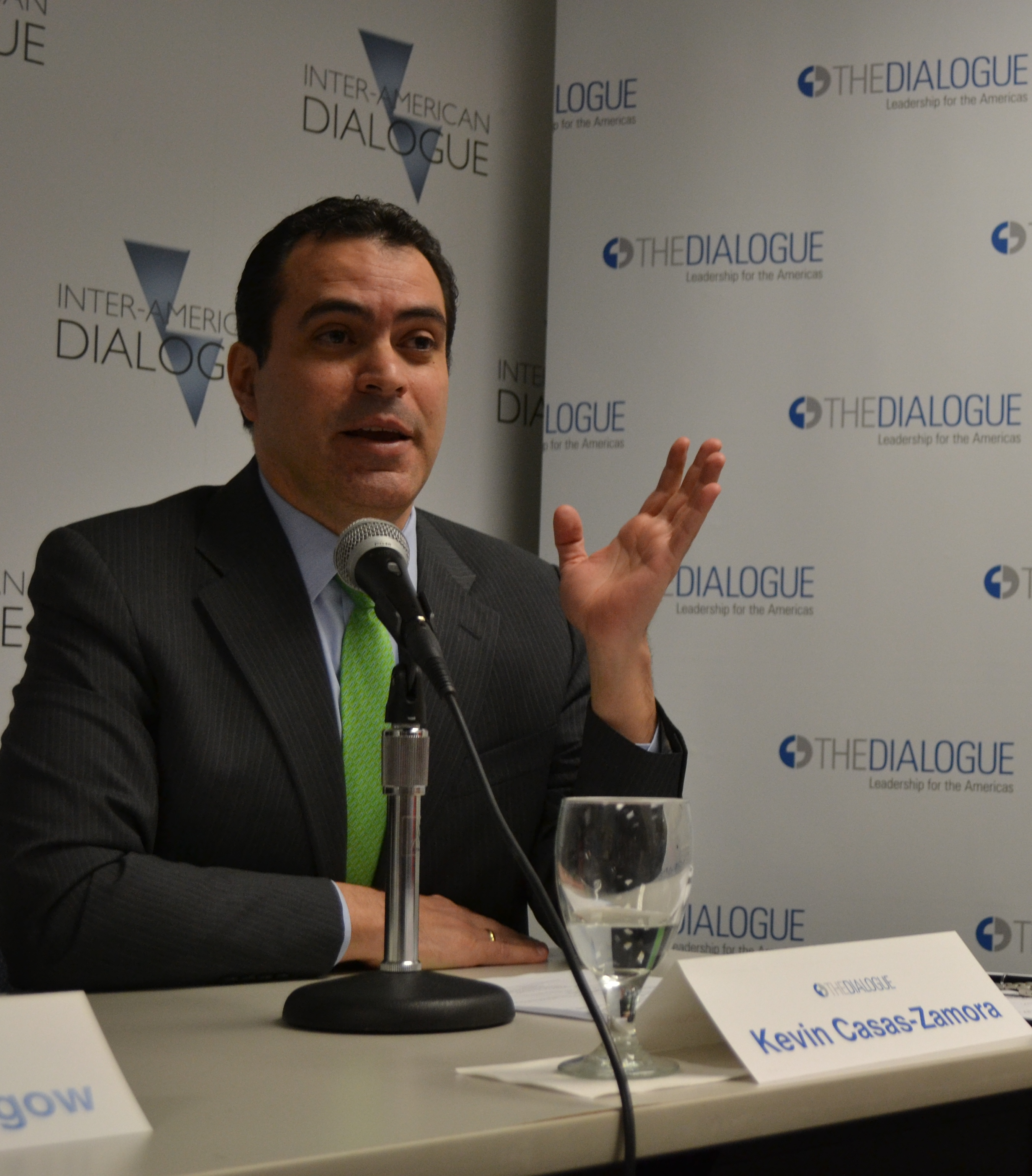 Kevin Casas-Zamora speaks at the Inter-American Dialogue